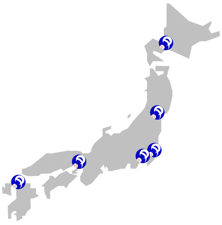 Baseball in Japan